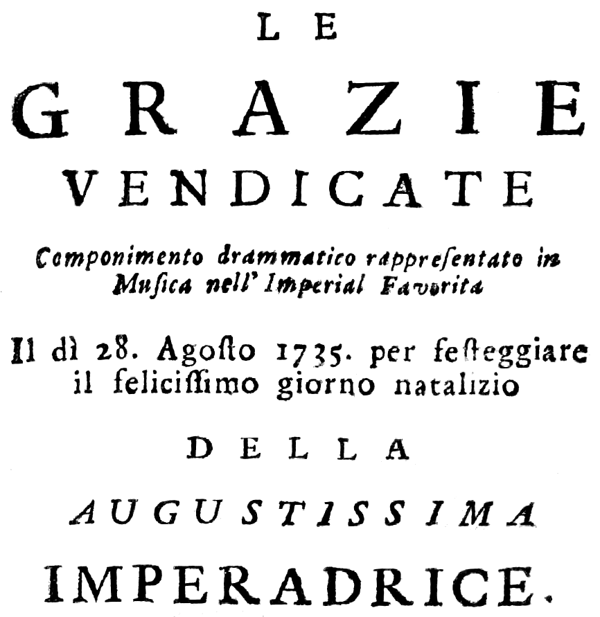 Antonio Caldara - Le grazie vendicate - titlepage of the libretto - Vienna 1735